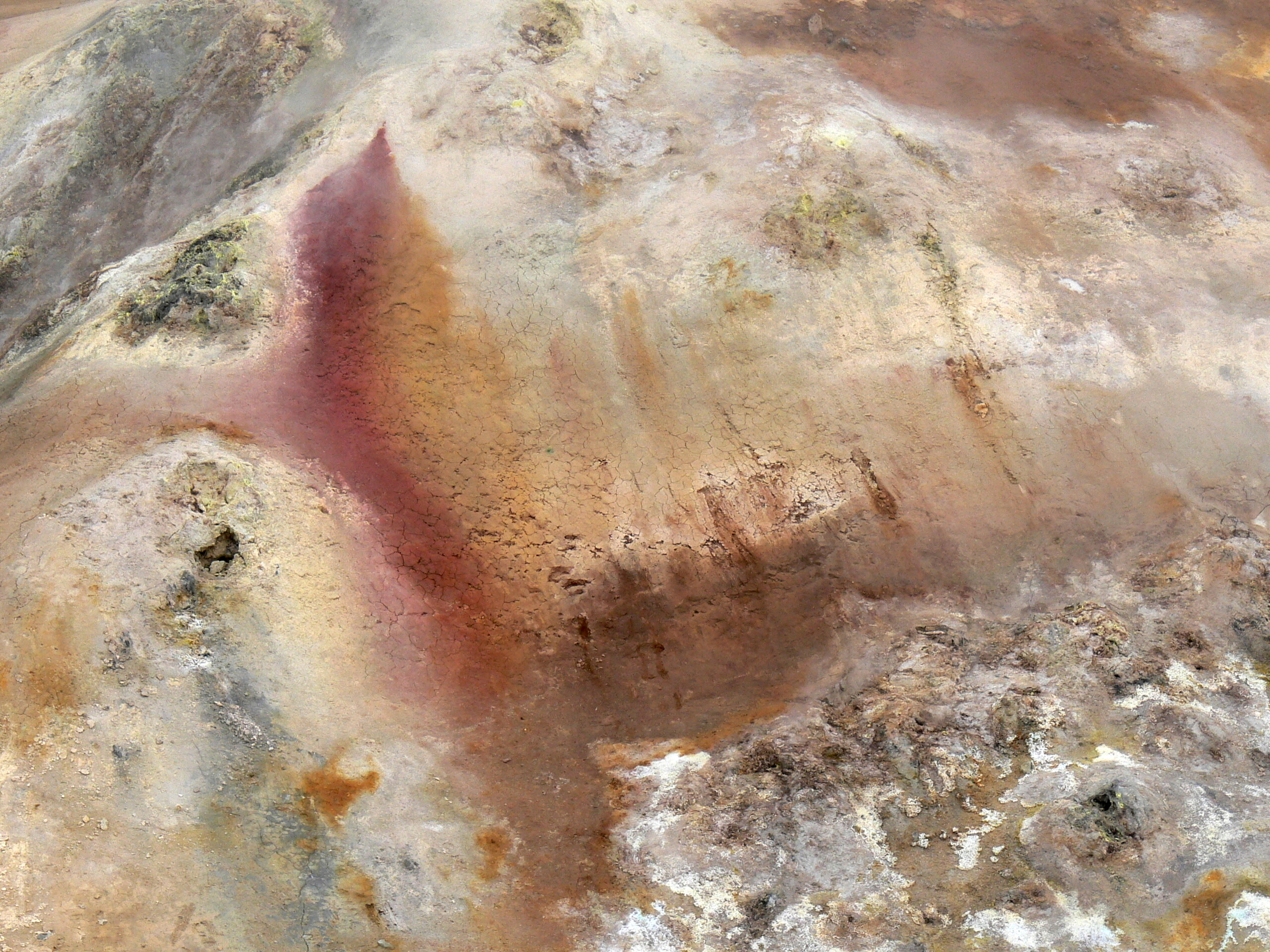 Krafla (Iceland). Sulphuric sediments near Viti Crater lake.